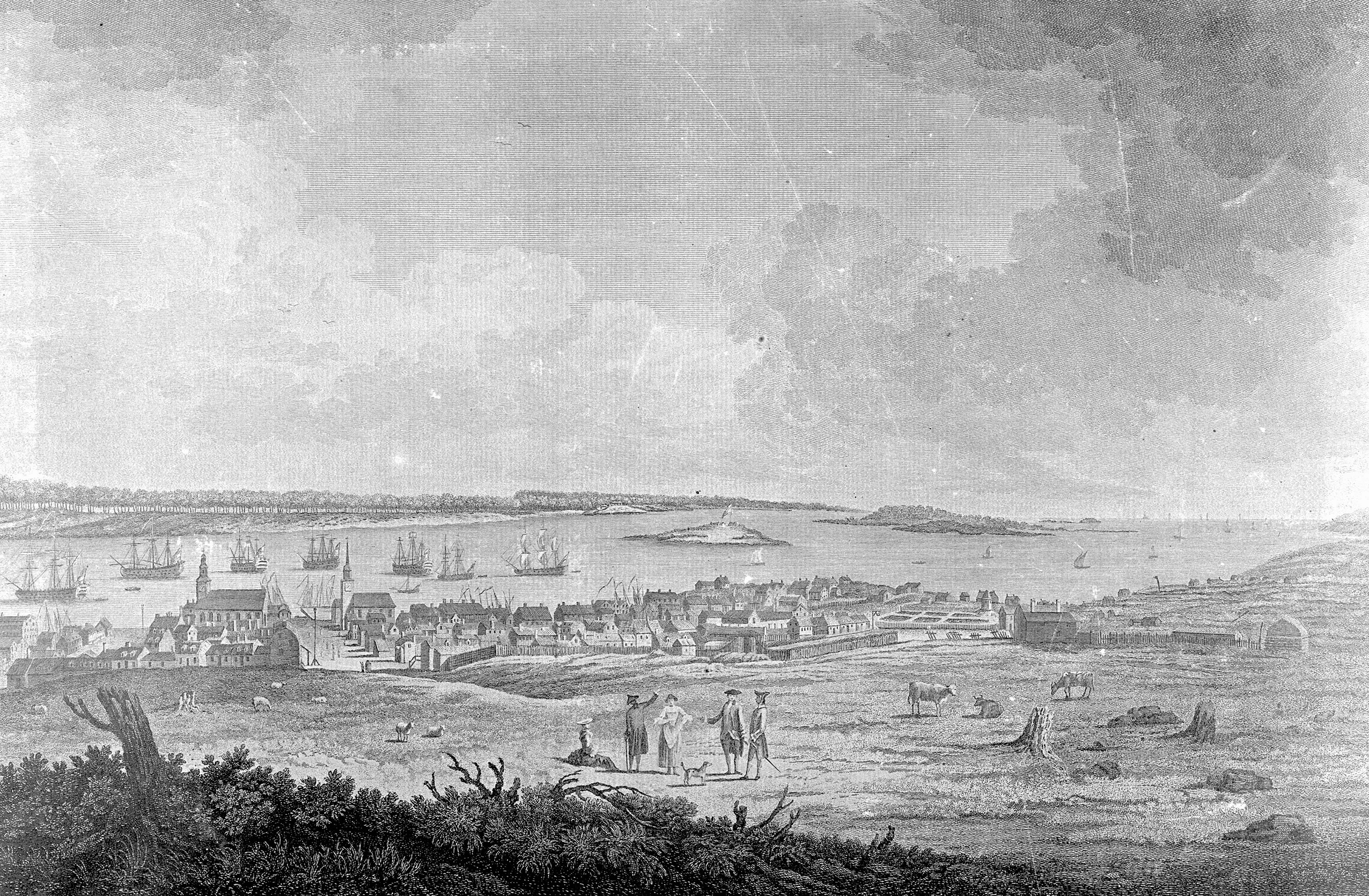 "Part of the Town and Harbour of Halifax in Nova Scotia looking down Prince Street to the Opposite Shore shews the Eastern Battery, George & Cornwallis Islands, Thrum Cap, &c. to the Sea off Chebucto Head", 1759. This sketch, done from the Citadel in May 1759, was executed while Richard Short was in Halifax during the Seven Years' War, with the British fleet bound for the siege at Quebec. Short was an amateur artist and the purser on board HMS Prince of Wales (sic), actually HMS Prince of Orange. The sketch shows at the northern (left) extreme, the Great Pontack Inn at the corner of Duke and Water Streets, and extends as far south (right) as the Governor's Summer Farm, now the site of Government House on Barrington Street.